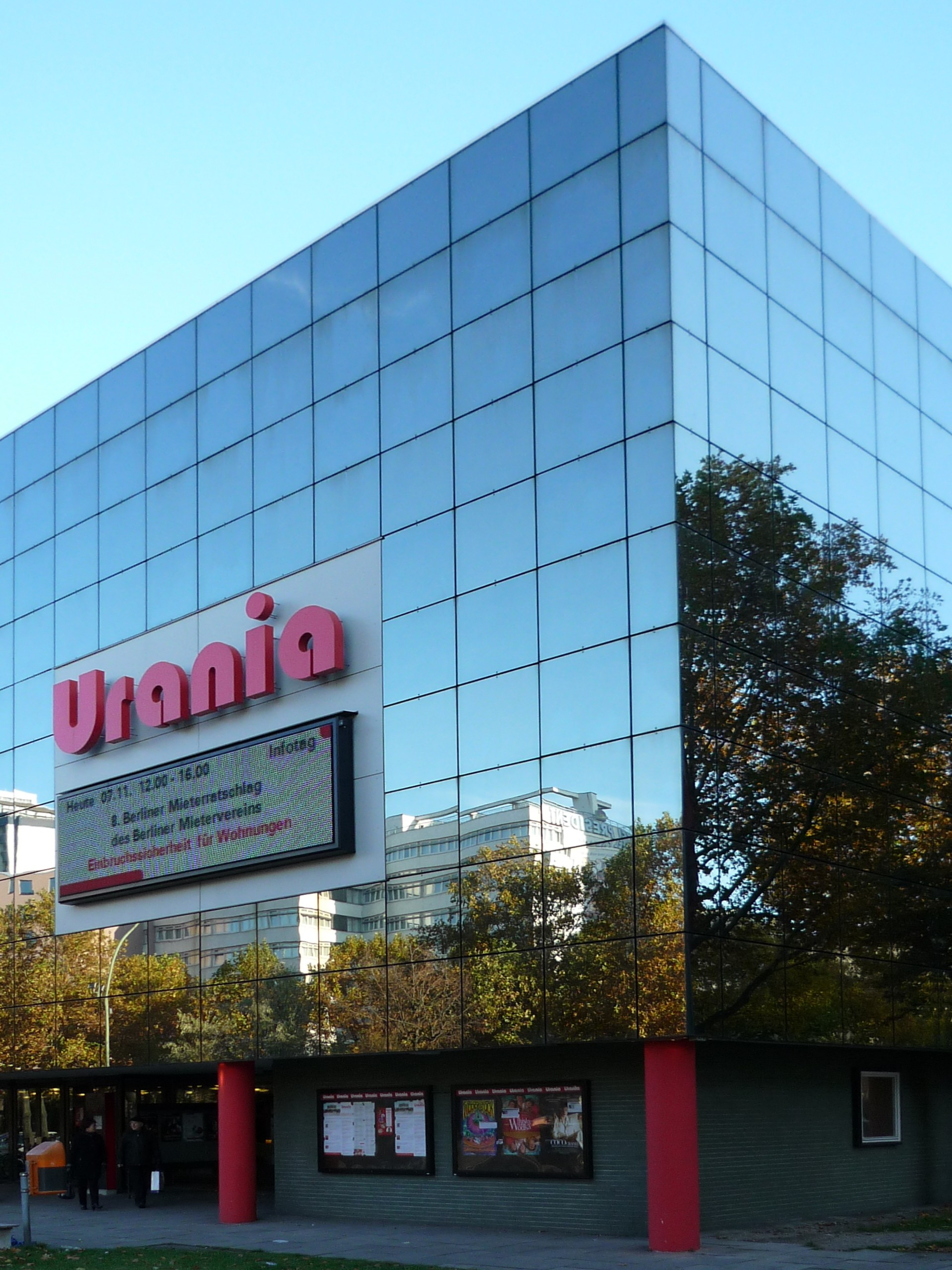 "Urania" building in Berlin-Schöneberg. Partial view.)